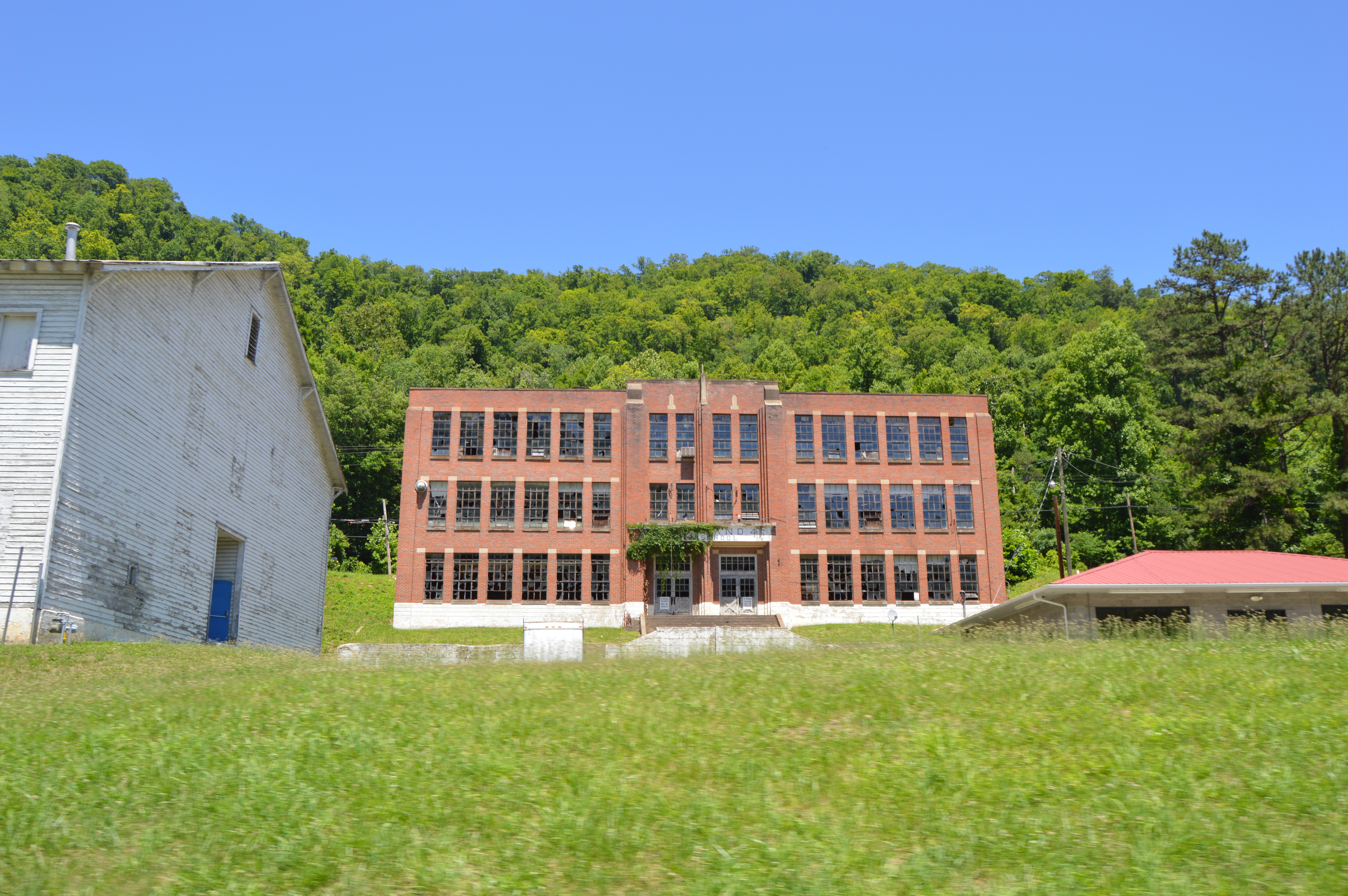 Front of the old Wayland High School, located on the northeastern side of Kentucky Route 7 at the northwestern end of Wayland, Kentucky, United States. It was built in 1941.